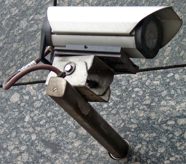 Security camera at the building of the German Federal Bank in Hamburg (GNU-FDL, self-photographed).